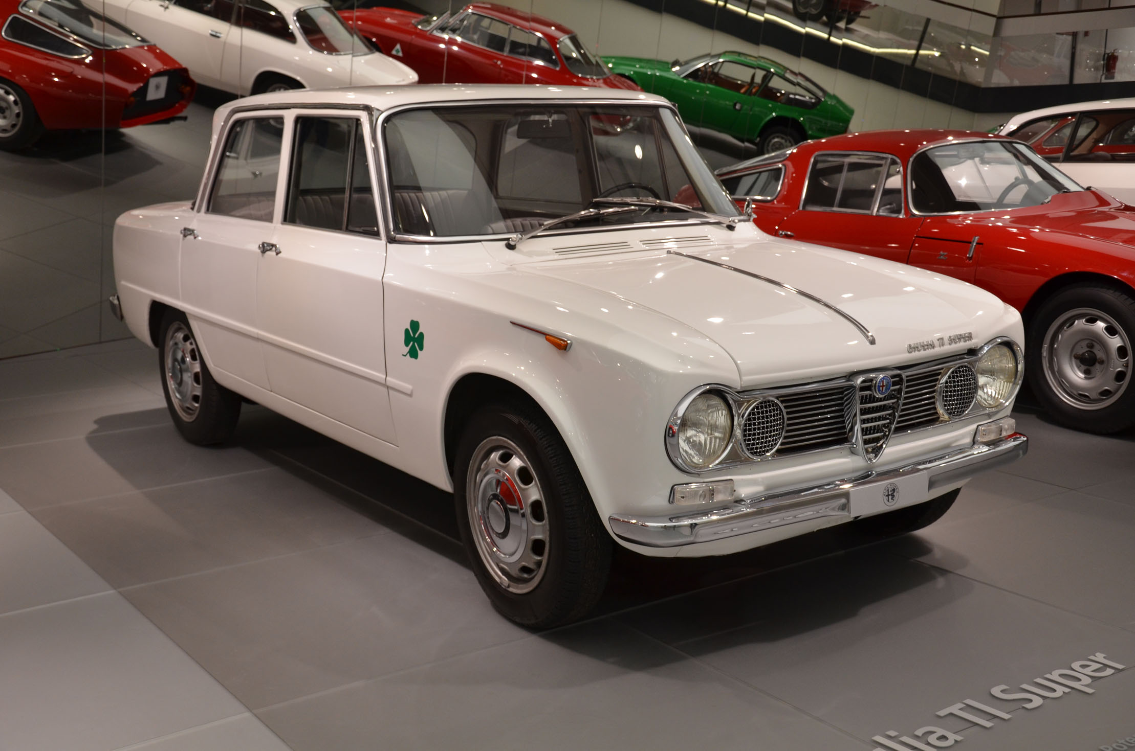 Alfa Romeo Giulia TI Super on display in the Museo Storico Alfa Romeo.